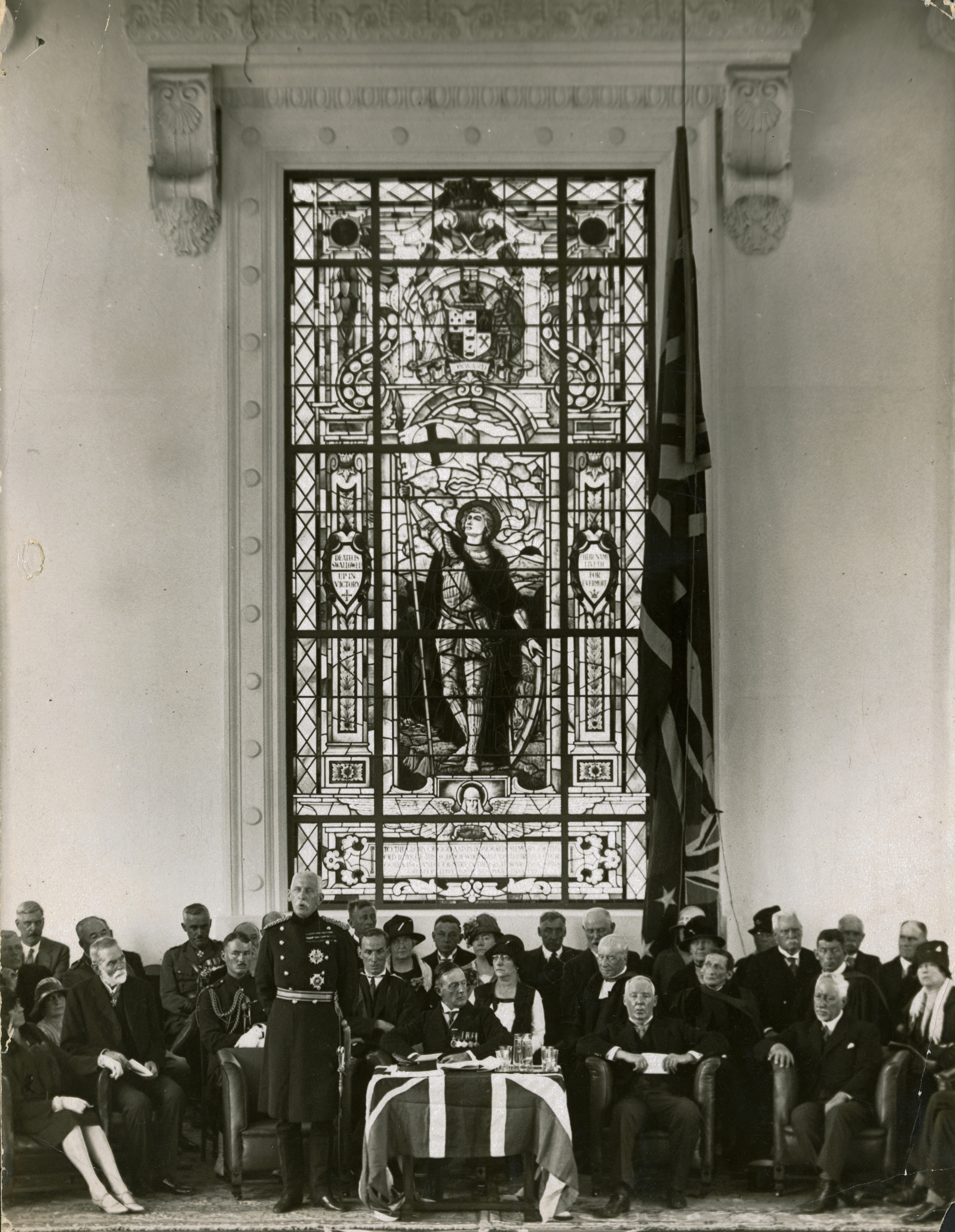 Sir Charles Fergusson speaking at the official opening of the Memorial Hall, Wellington College, New Zealand. The group is ranged below the memorial window. Fergusson, Charles (Sir), 1865-1951; Field, William Hughes, 1861-1944; Sinclair-Burgess, William Livingstone Hatchwell, 1880-1964; Ward, W F, fl 1900; Rolleston, Francis Joseph, 1872-1946